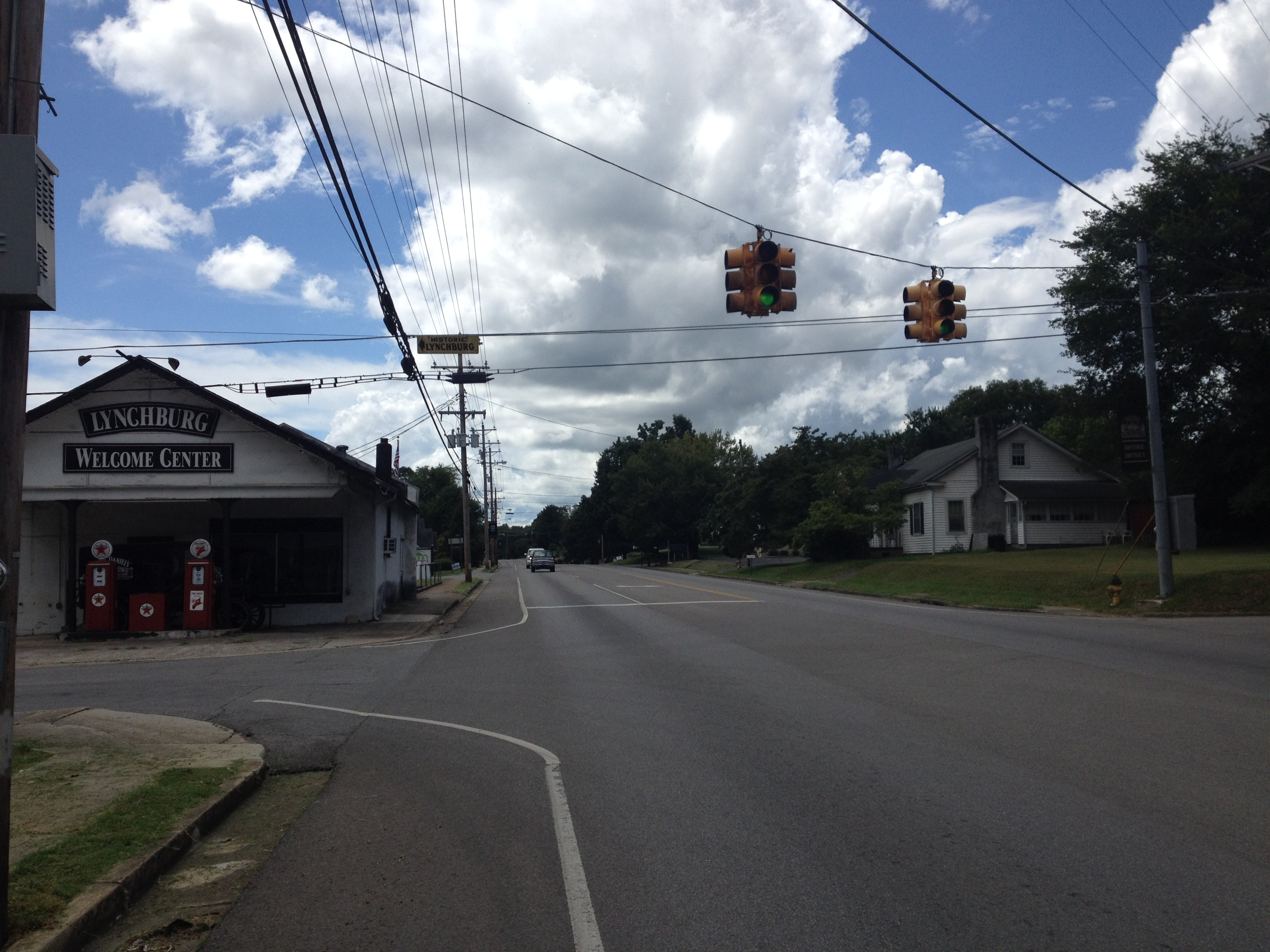 Westbound Tennessee State Route 55 (Lynchburg Highway) at the intersection with Mechanic Street in Lynchburg, Tennessee